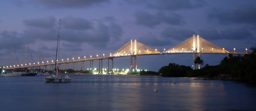 Newton Navarro bridge, Natal, Brazil.